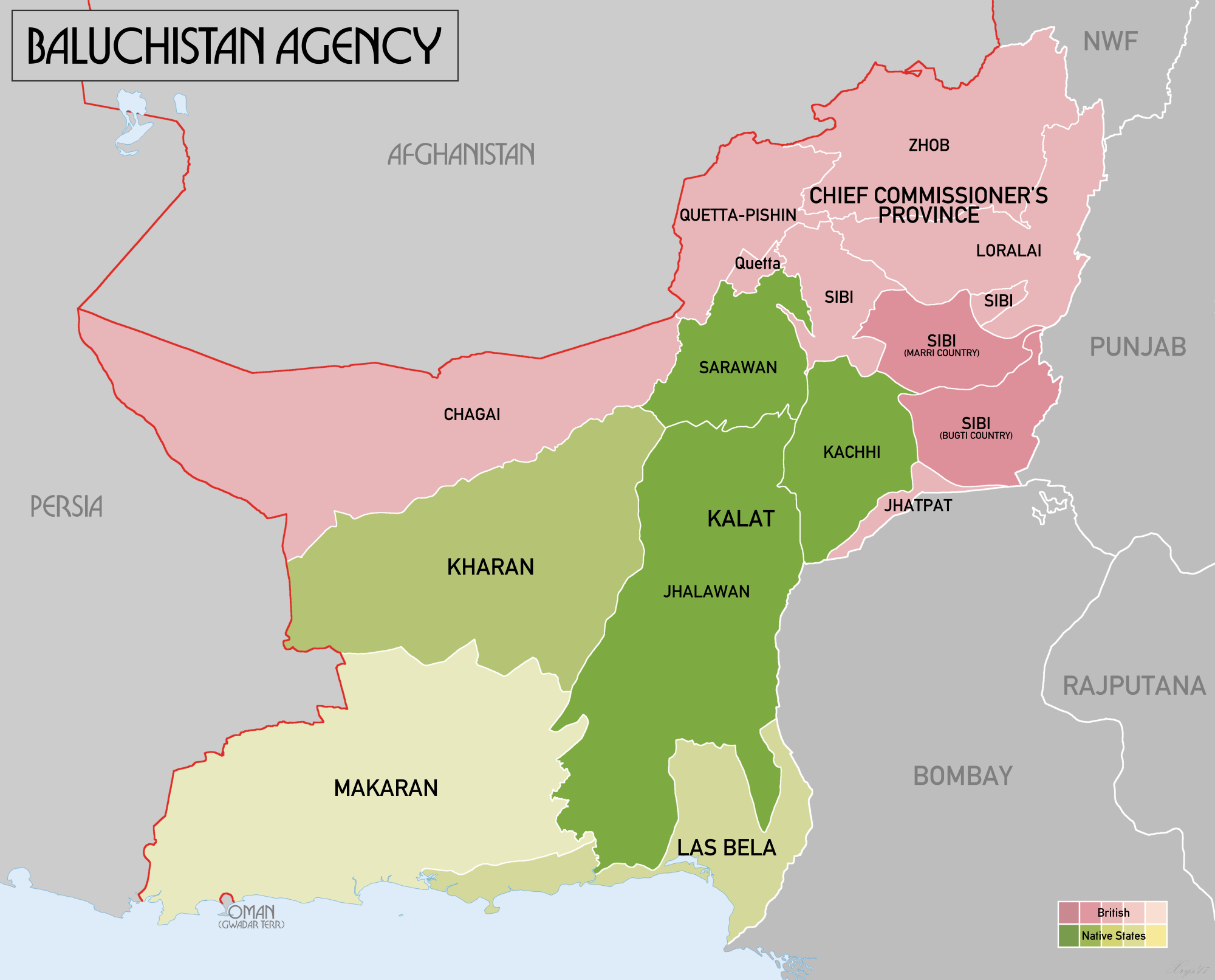 Administrative map of British India's Baluchistan Agency in 1931. Source data: Survey of India 1:253k (Perry-Castenada Map Library, Univ of Texas), India 1:1M, Imperial Gazetteer of India 1:4M (Digital South Asia Library, Univ of Chicago).